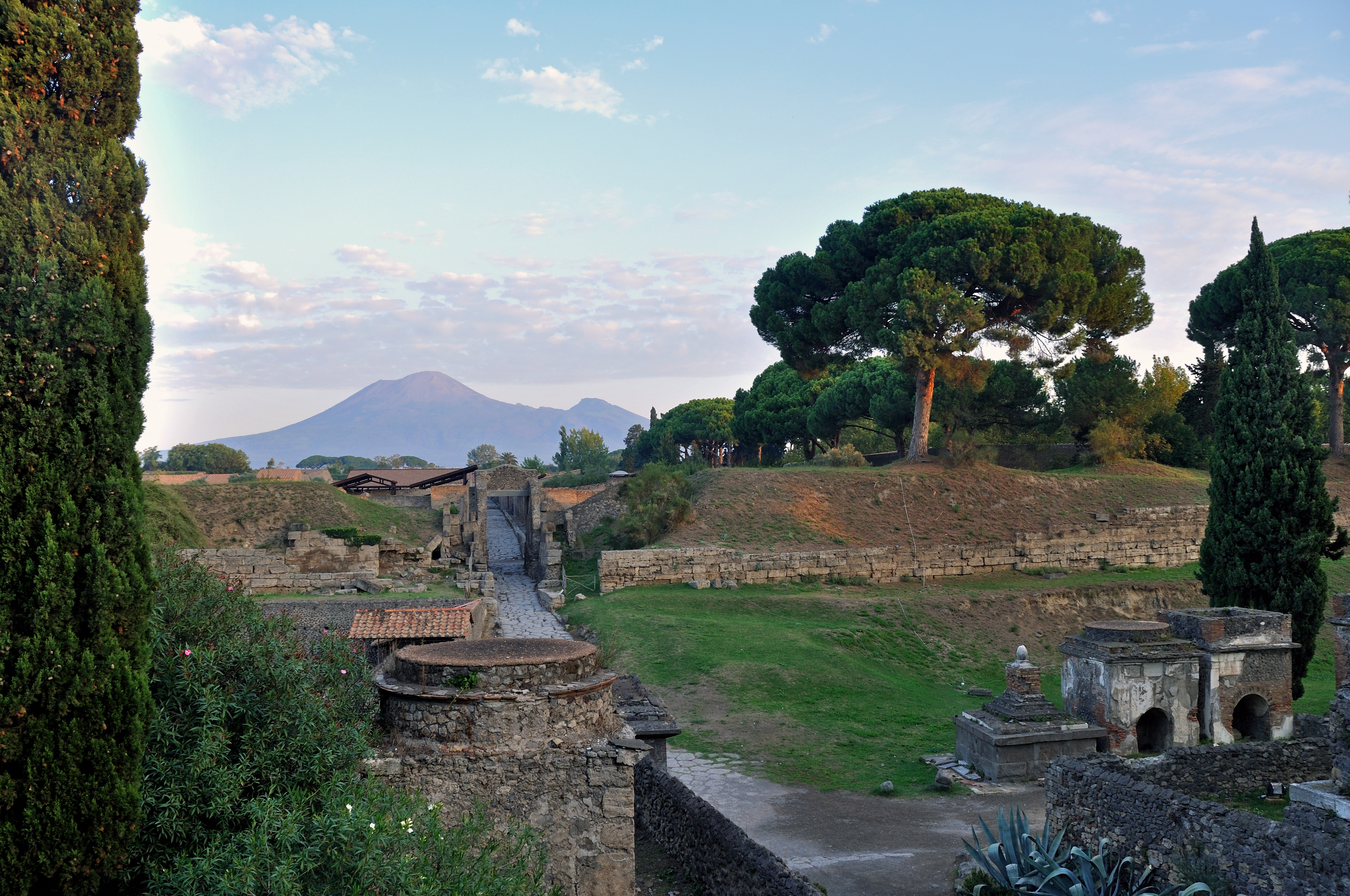 Tombs and mausoleums at Necropolis of Porta Nocera. Pompeii. Italy.